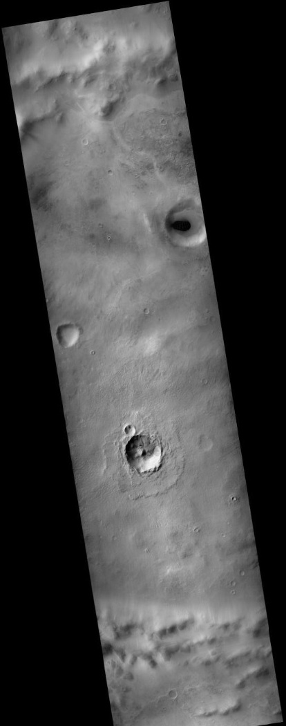 Heaviside Crater, as seen by ctx